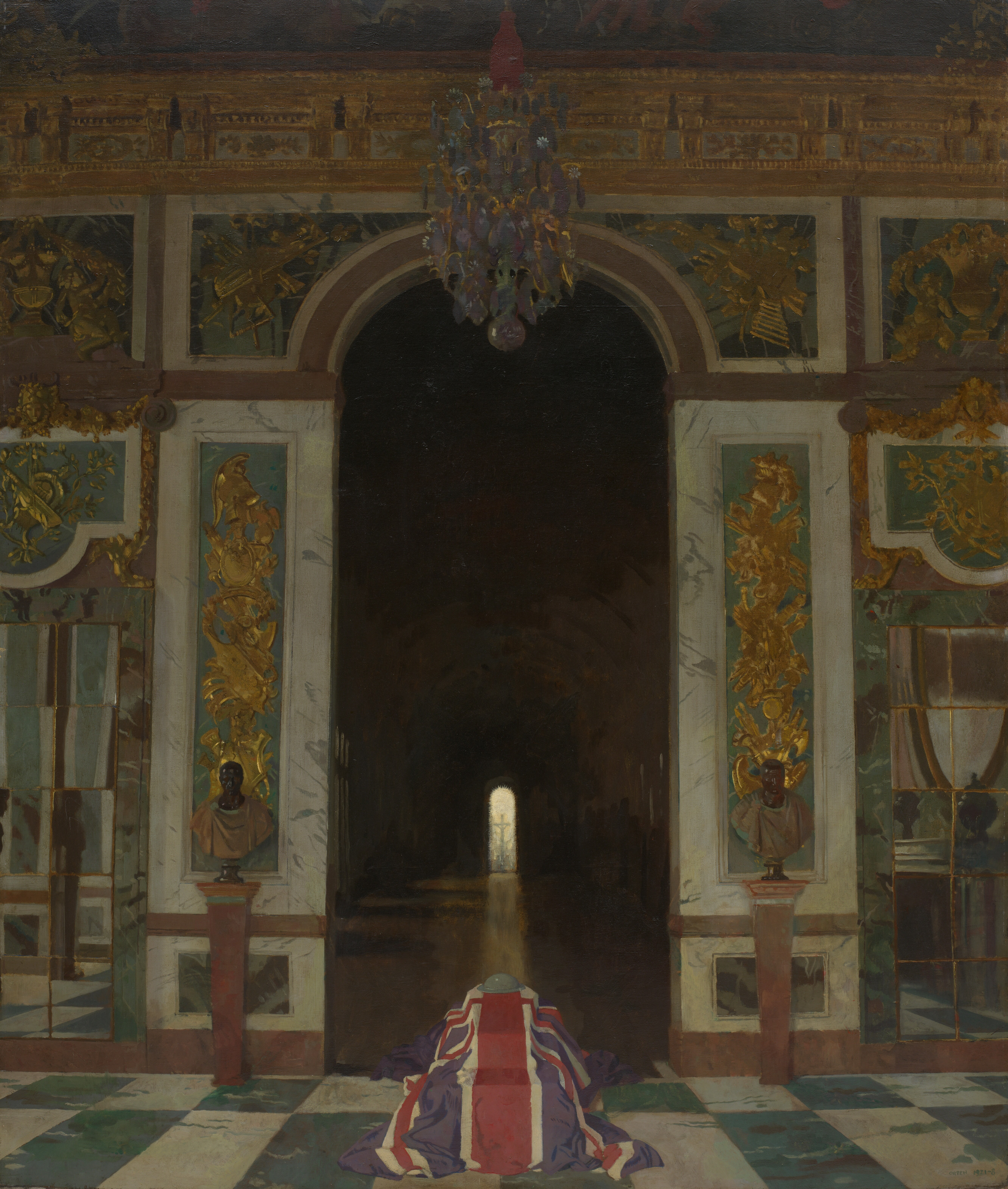 To the Unknown British Soldier in France image: A coffin holding the remains of an unknown soldier, draped in the Union flag, lies at the bottom of the composition. The coffin lies in state in a richly decorated marble hall directly beneath a chandelier. There is a dark hallway in the centre with light from the archway at the far end casting a pathway to the head of the coffin.